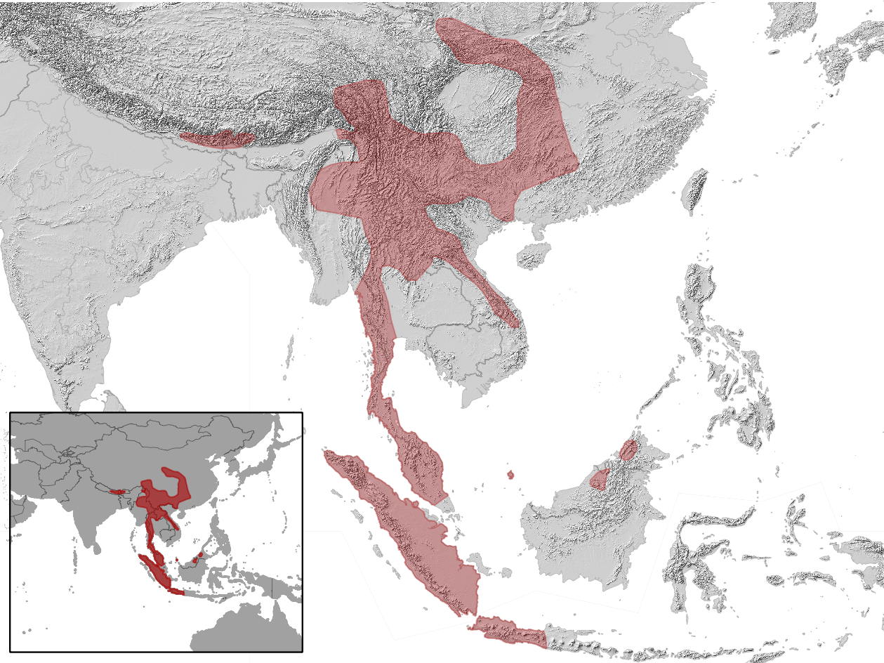 geographic distribution of Petaurista elegans